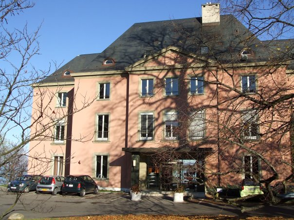 The Villa Barton (Geneva).